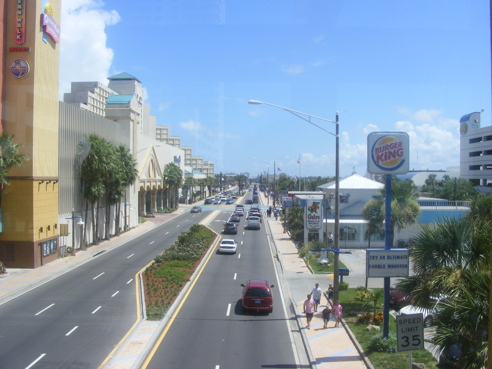 Vies of Daytona Beach, South on Highway A1A. Photo taken from Ocean Walk Pedestrian Bridge. A1A was the paved portion of the original course for the Daytona Beach Road Course.